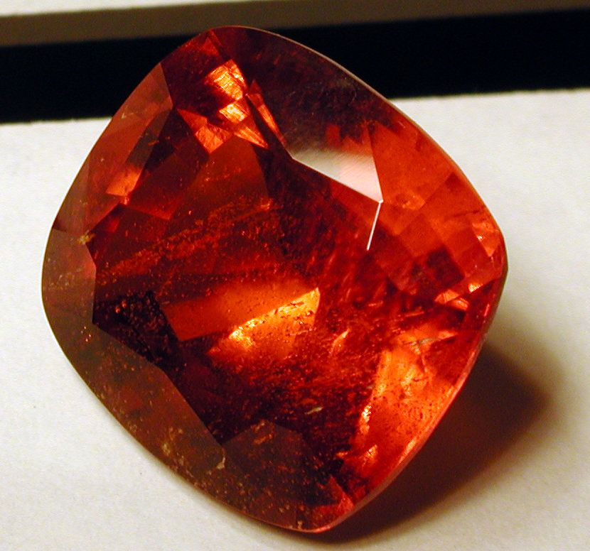 Mined Clinohumite IN GEMSTONE FORM From Pamir MTS - OLD USSR Natural Gold-Orange 7 Color Cushion Cut 17.8x16mm 21.34 cts. Very very rare. The image is from a gemstone in a private collection and is donated to the Public Domain by David Zotter / Bennett-Walls / and